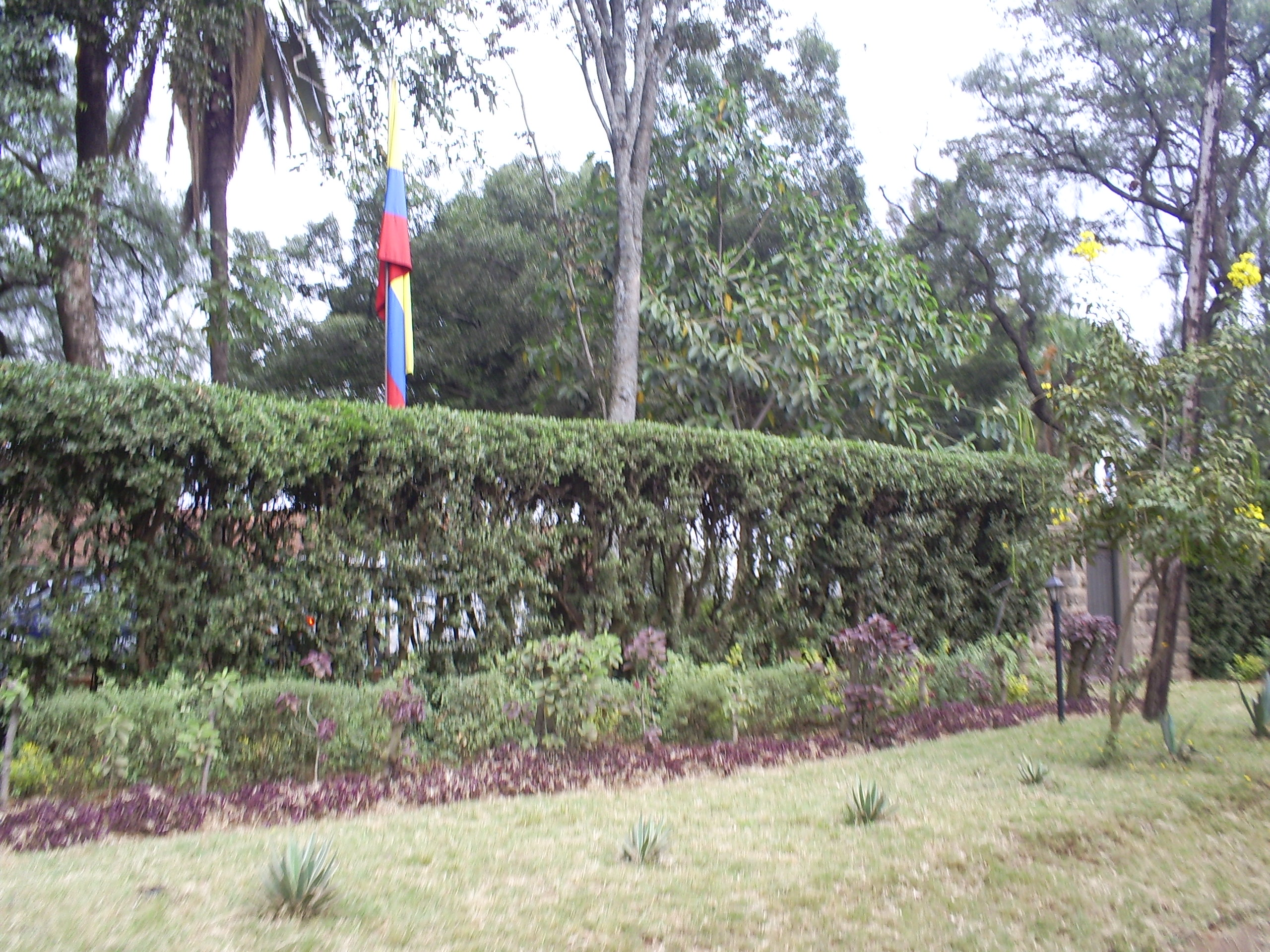 Colombian Embassy in Nairobi, Kenya